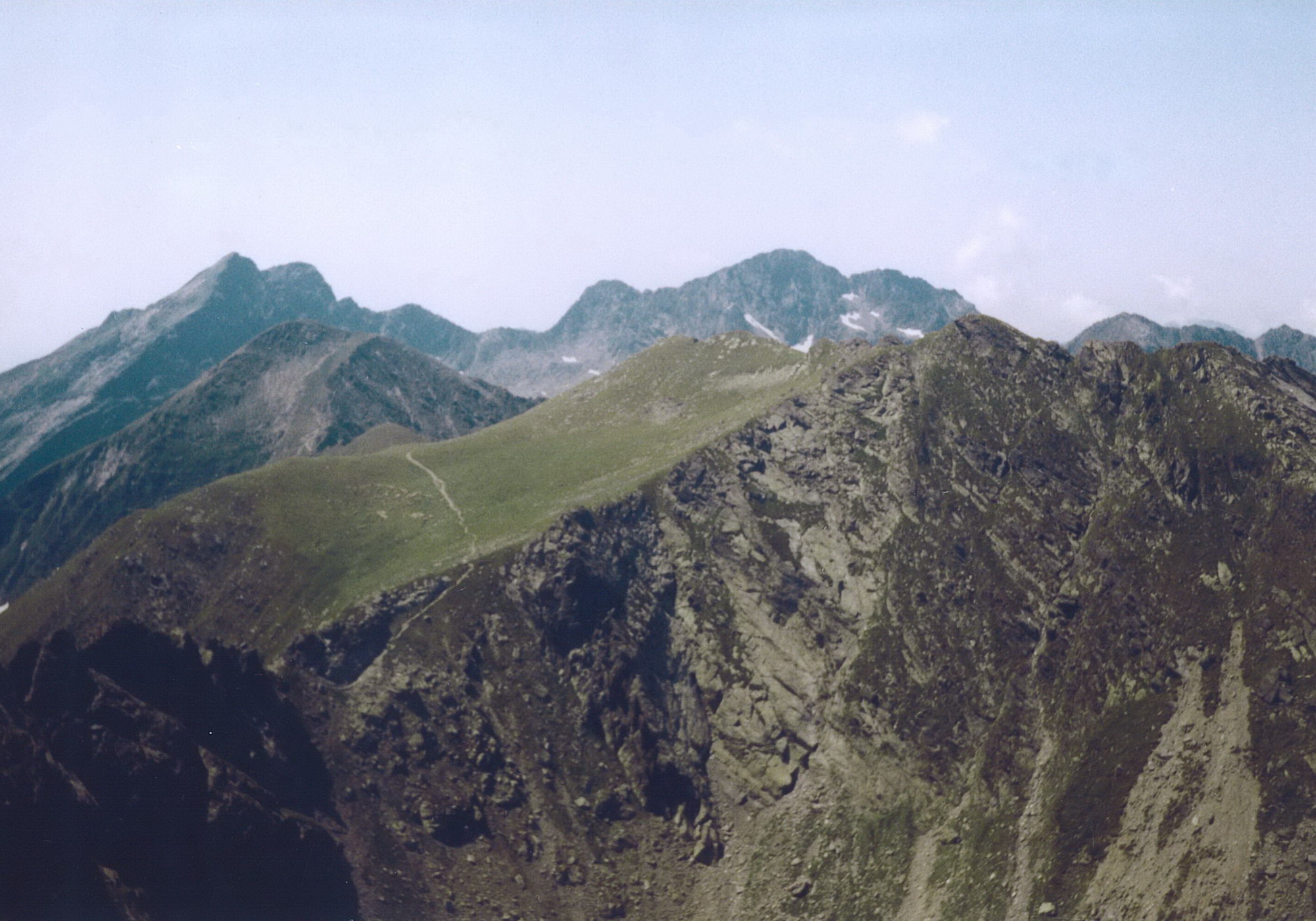 West from Paltinu Peak